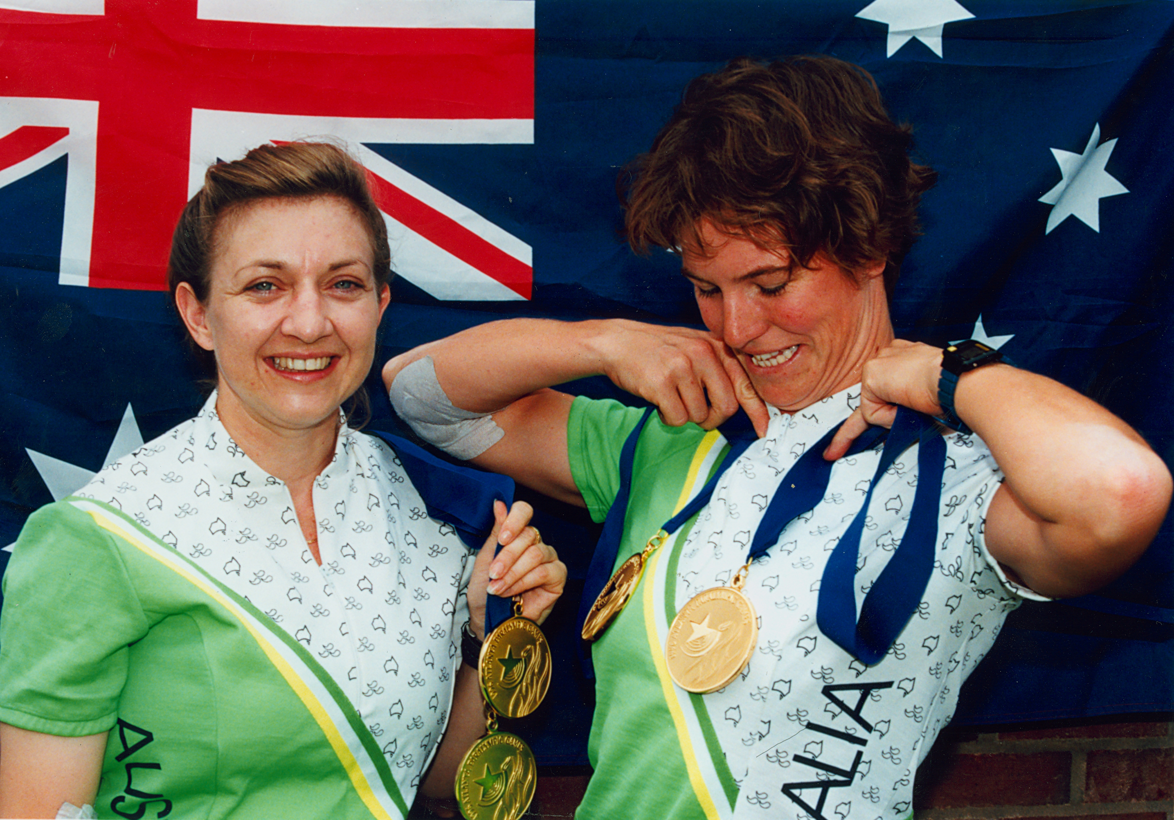 Australian Para-cyclist tandem teammates Teresa Poole (left) and her sighted pilot Sandra Smith (right) show off the two gold medals they won at the Atlanta 1996 Paralympic Games.